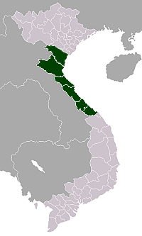 Northern Central Coast Region map of Vietnam